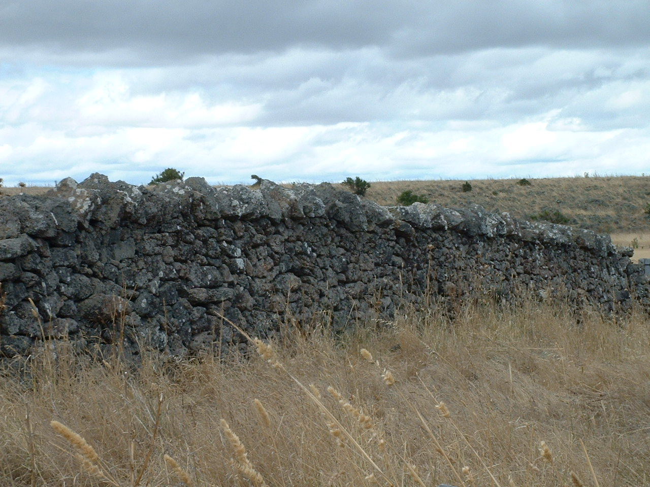 A dry stone wall on the plains near Lake Corangamite, Victoria, Australia.